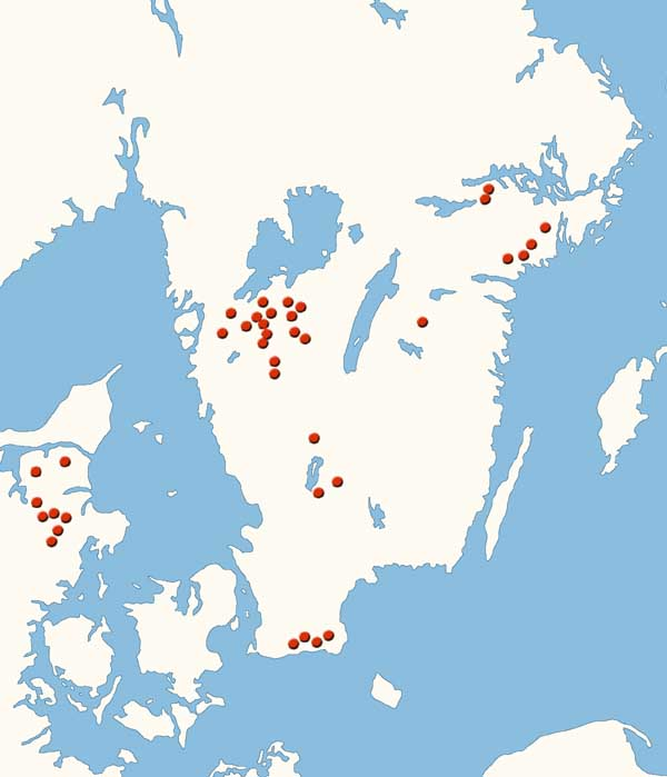 Map showing the names "theghn" at runic stones from the Viking period.